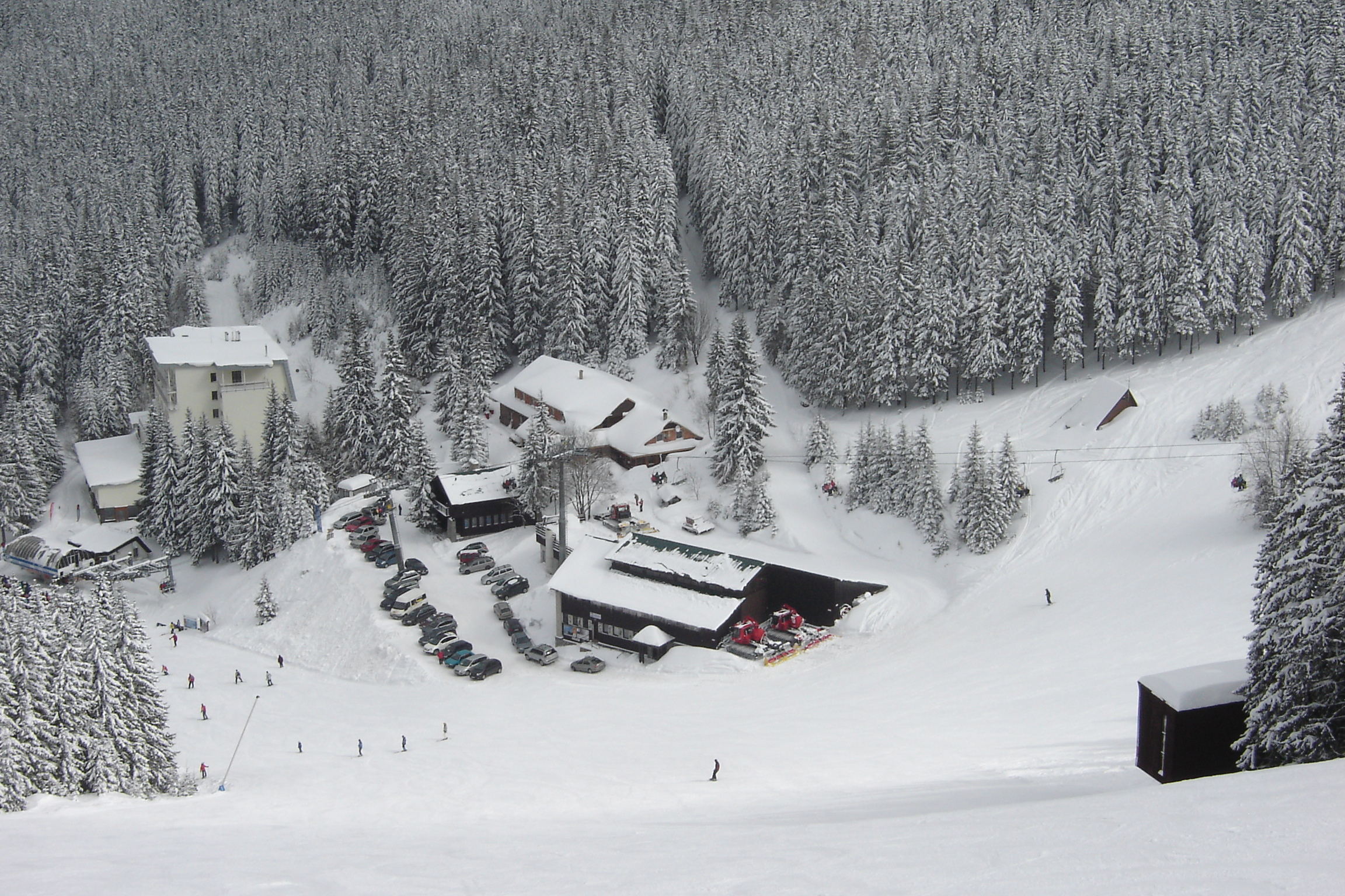 Koliesko, valley station chairlift Koliesko–Luková in Jasná Ski Resort. Current station is on the left with round roof; former station is the gabled-roof building with the snow groomings in the front of.